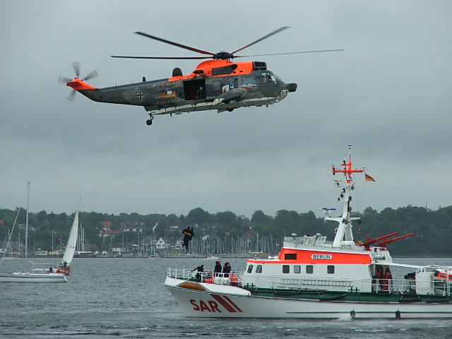 German Westland Sea King SAR helicopter in action. Kiel, Germany. 2005 /PAJ